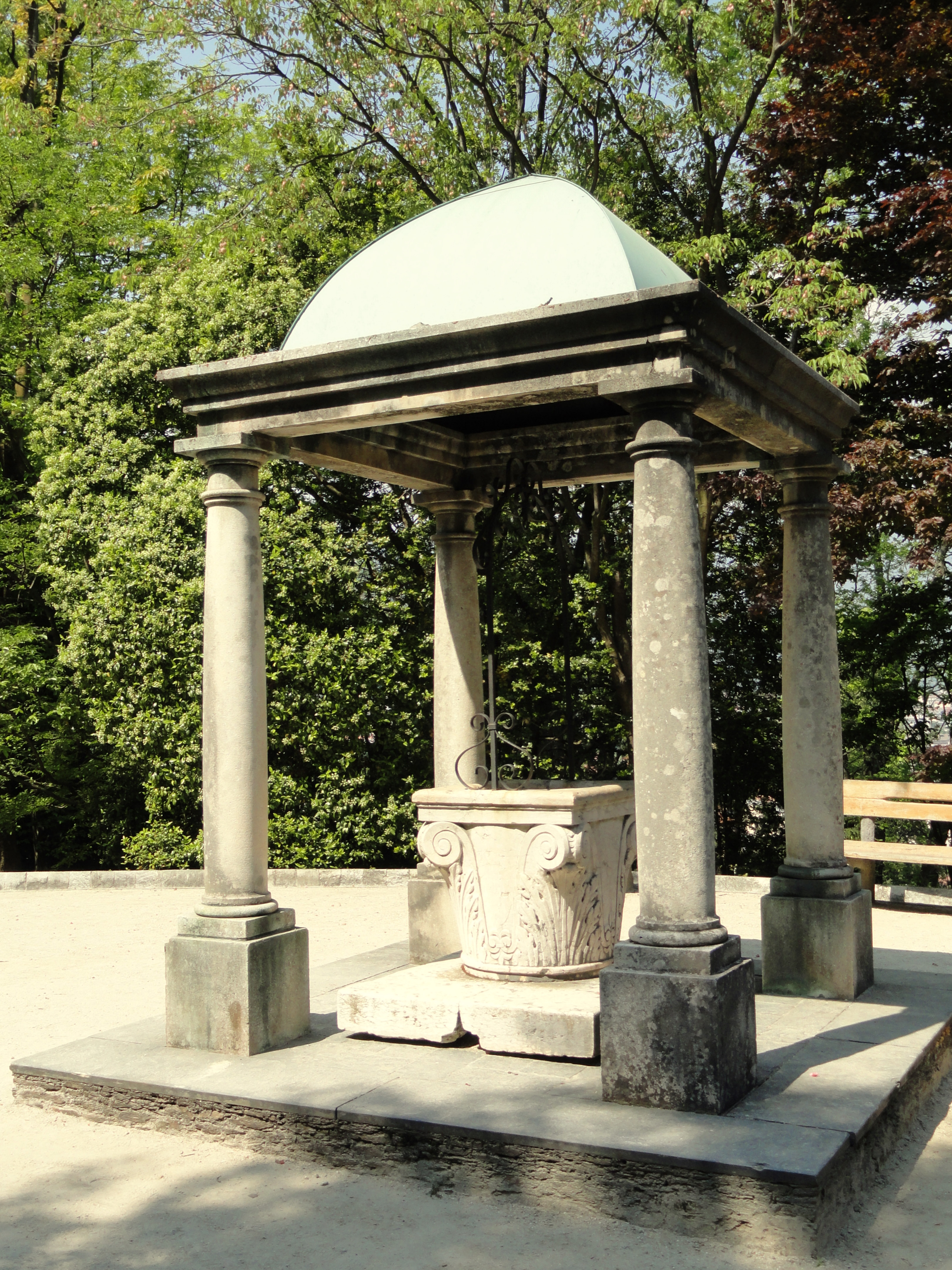 General view of Villa Taranto (Verbania), Lake Maggiore, Italy.